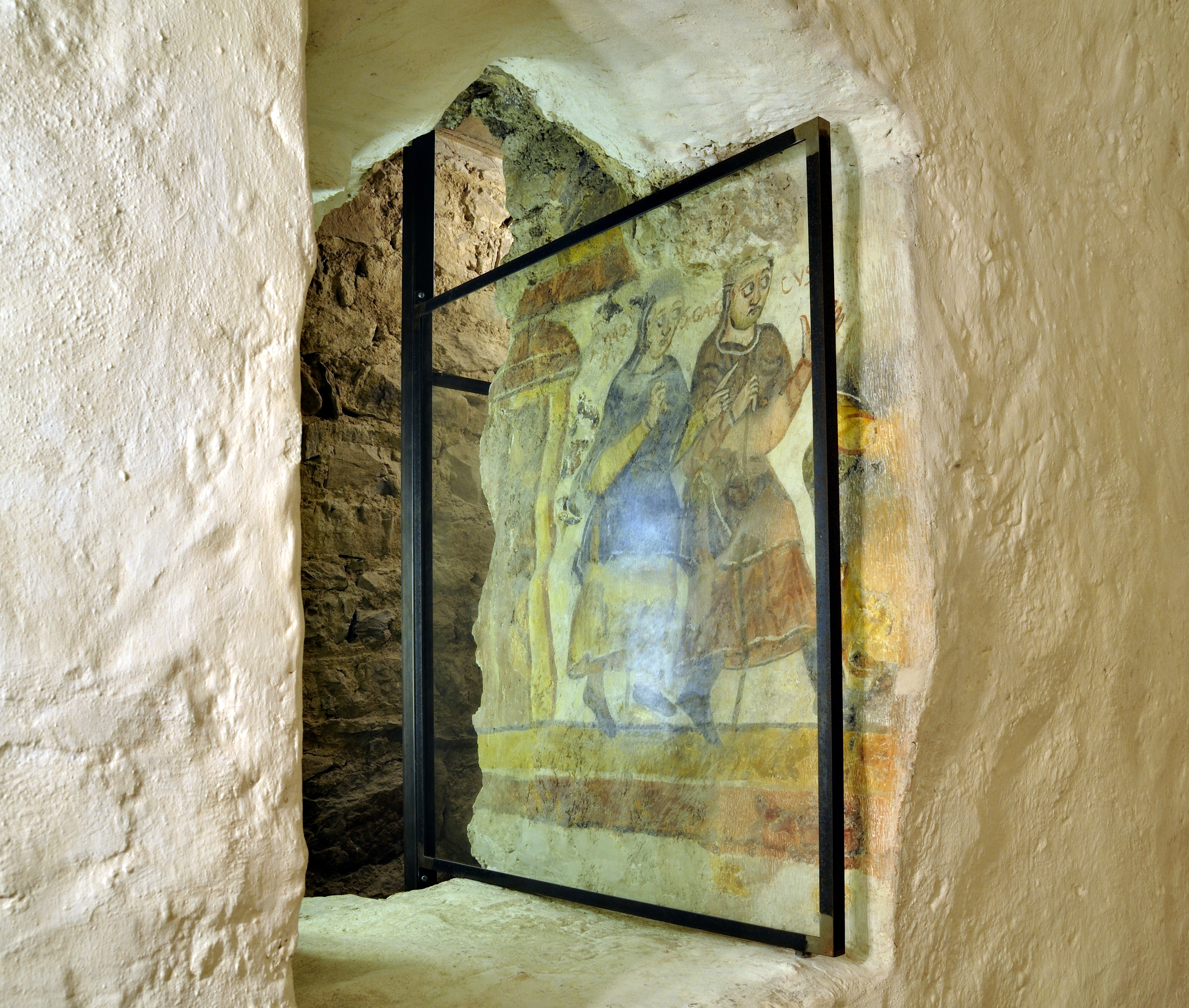 St. Mang Basilica Füssen